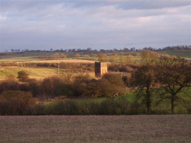 Disused Railway Water Tower, Woodford Halse, Northants. With the opening of the Great Central Railway's main line at the end of the 19th century, the sleepy Northamptonshire village of Woodford Halse became a thriving railway centre. Marshalling yards were built and extended until they could accommodate 3,500 wagons. The line closed in 1966 and today this water tower, that once supplied Charwelton water troughs at the north end of the New Yard, is all that remains.